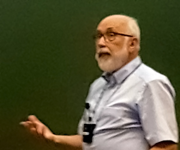 Heiner Dörner at University of Stuttgart